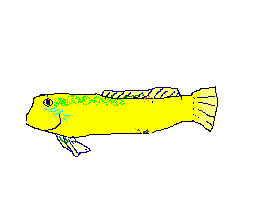 self-drawn draft of Ecsenius midas fish